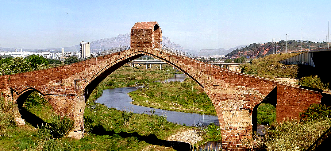 The Puente del Diablo is a bridge over the Llobregat in Martorell, Catalonia, Spain.